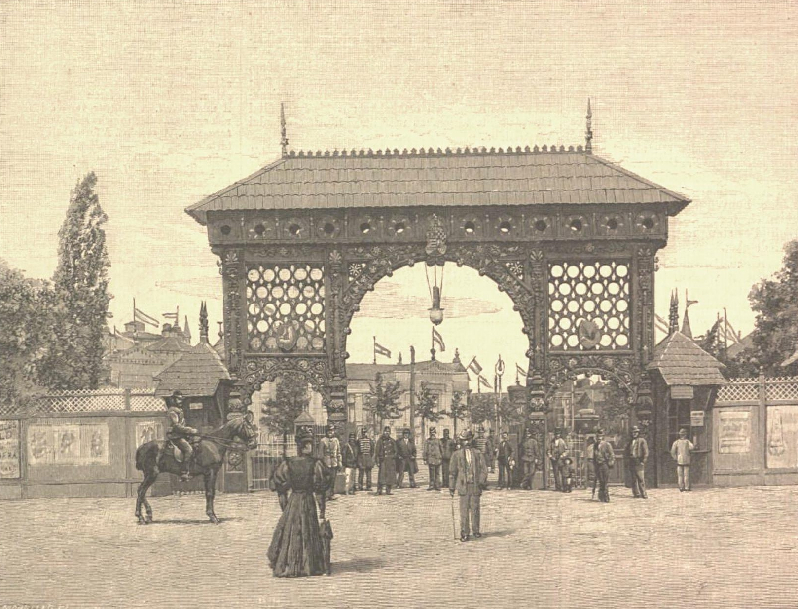 Millennial exhimbition in Budapest, Main gate no. 3.